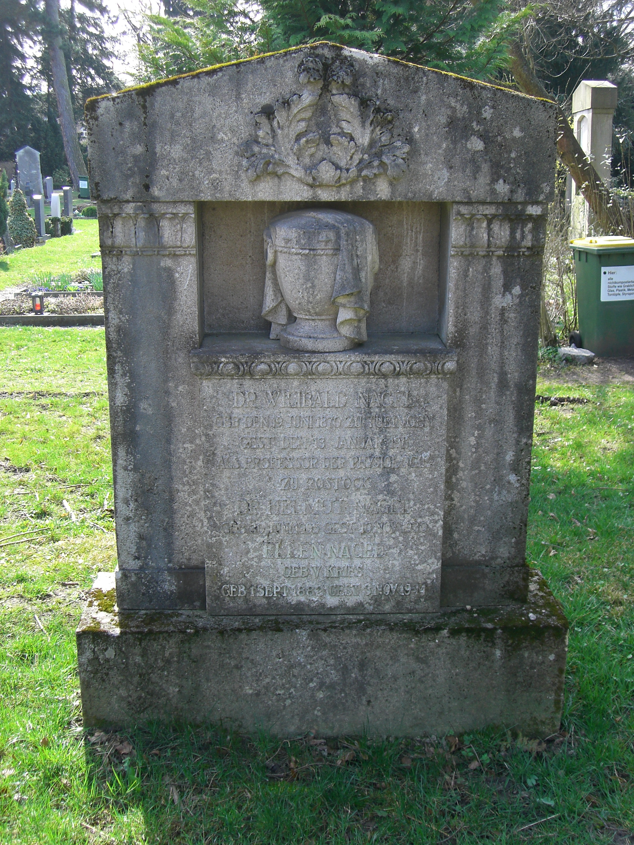 Grave of Willibald Nagel (1870–1911), German physiologist, on the main cemetery Freiburg im Breisgau.